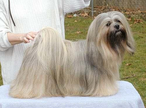 This is Basil, a 7 year old AKC Champion male Lhasa Apso